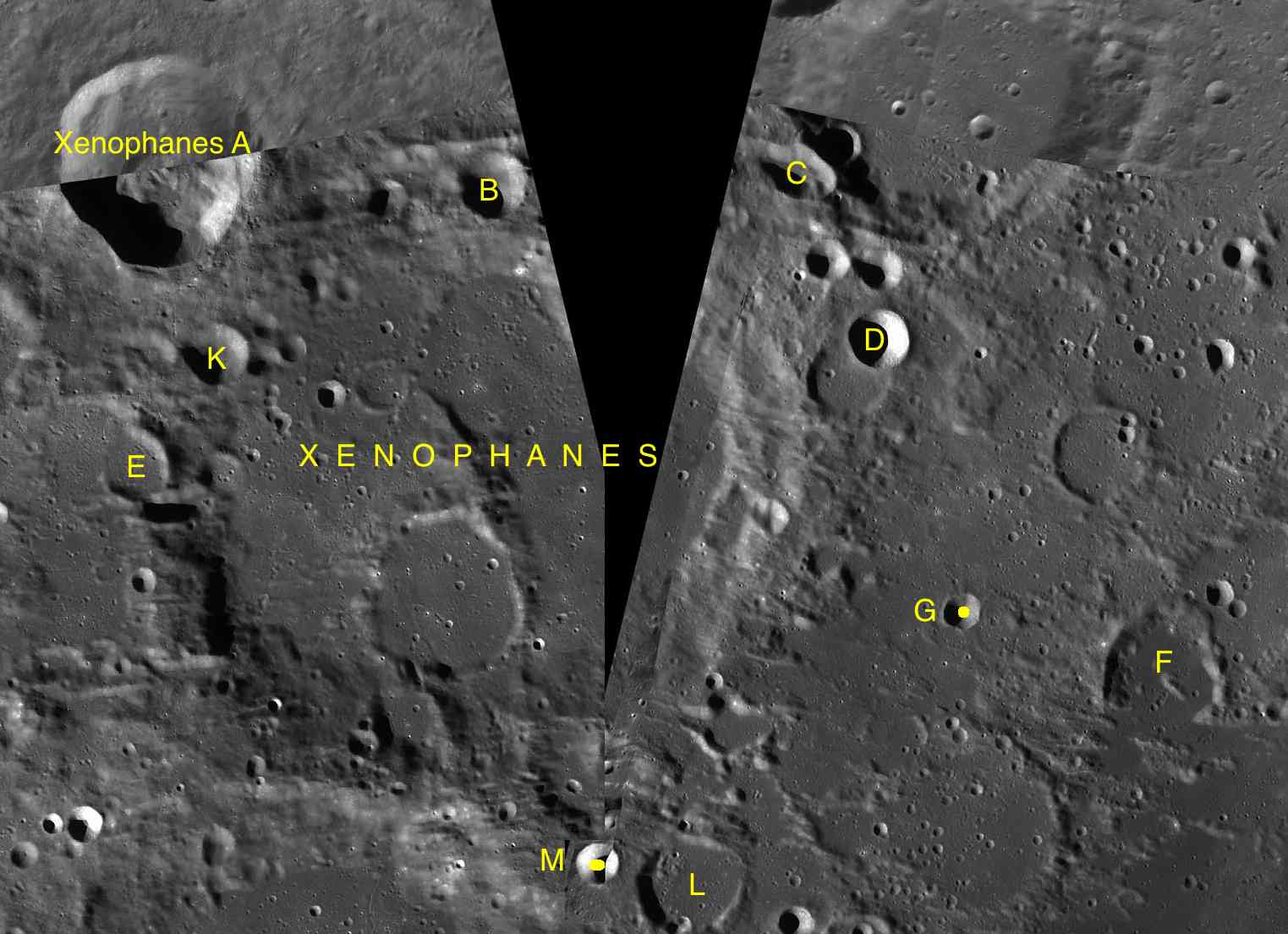 Parts of the charts LAC-10, LAC-21 used for the presentation